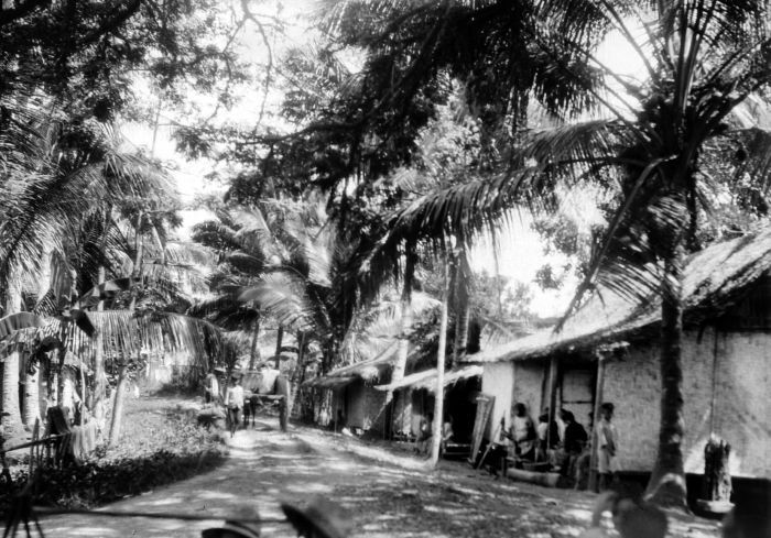 A street in Kalipucang